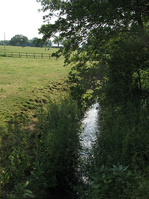 Sunlit stream